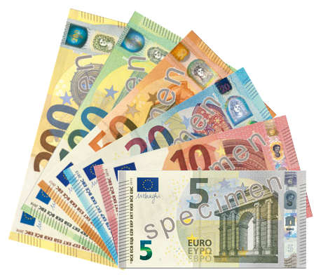 Euro banknotes Europa series